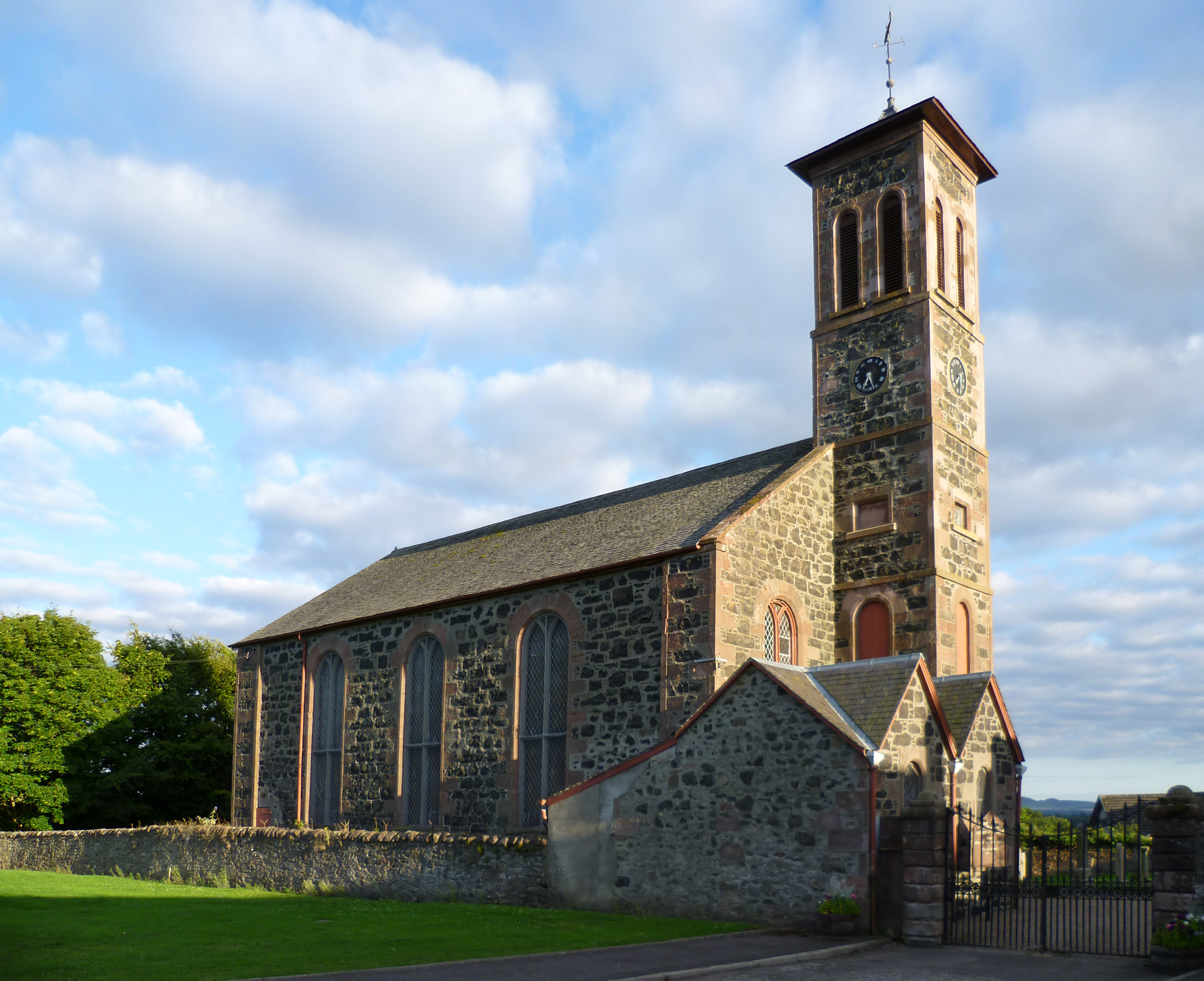 Blairgowrie and Rattray, Perth and Kinross, Scotland.